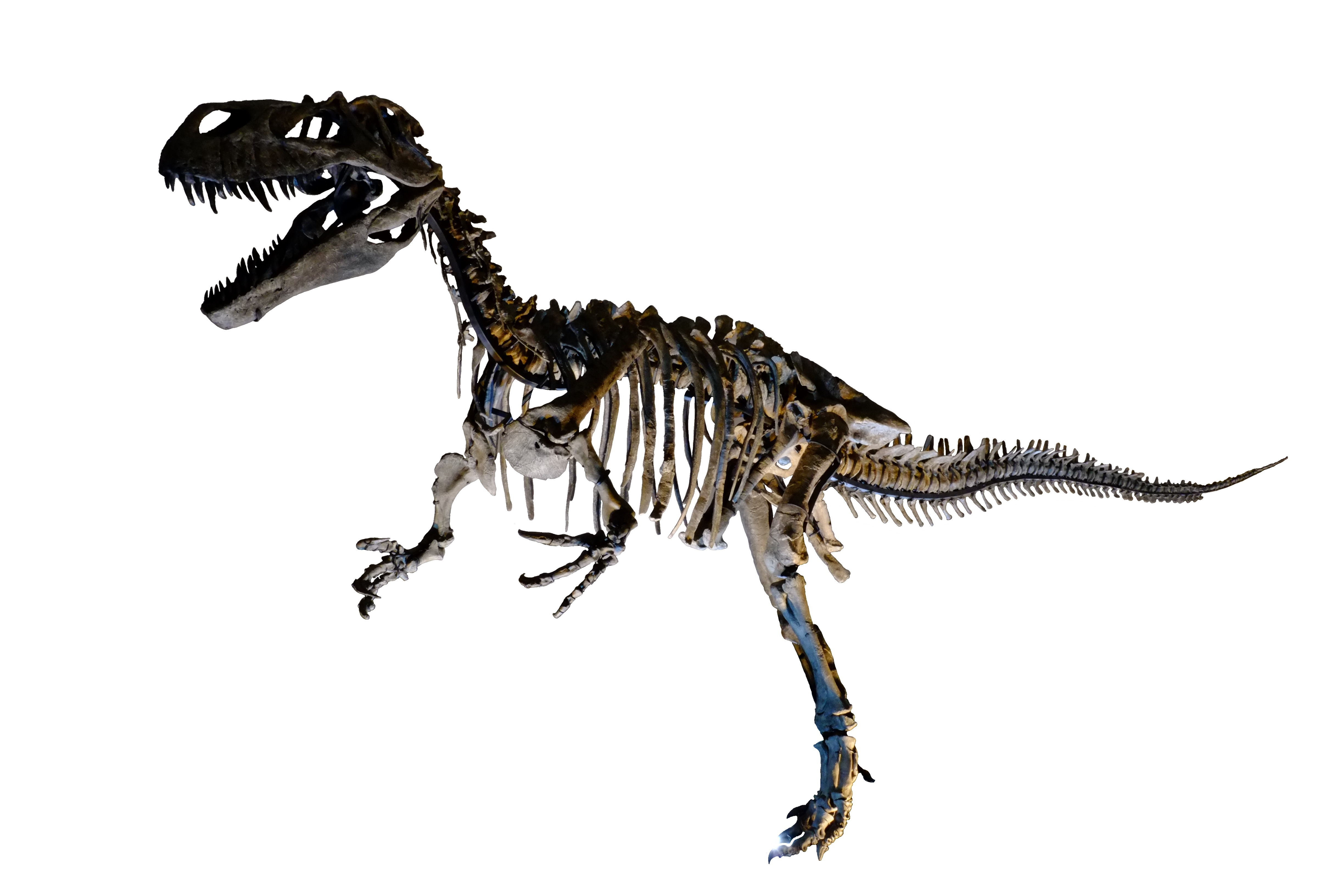 実物全身骨格だよ！